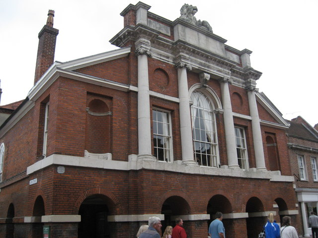 The Council Chamber and Assembly Room on the corner of North Street and Lion Street, Chichester Listed Grade II* on 5 July 1950. It was built in 1731. Architect Roger Morris.